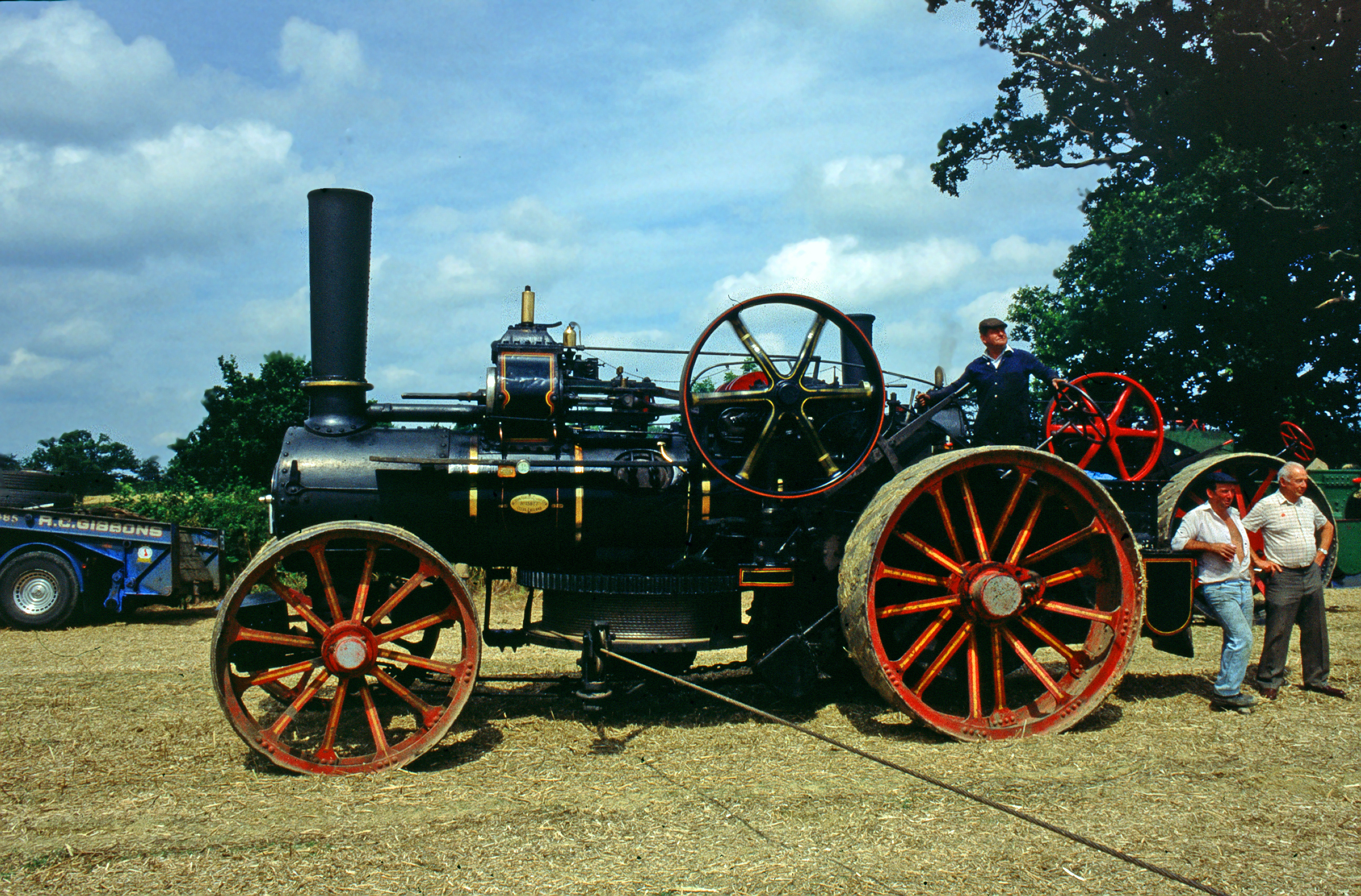 A Fowler ploughing engine at a ploughing and steam fair in Staplehurst, Kent, in the mid 1980s. The ploughing cable can be seen stretching toward the left corner.